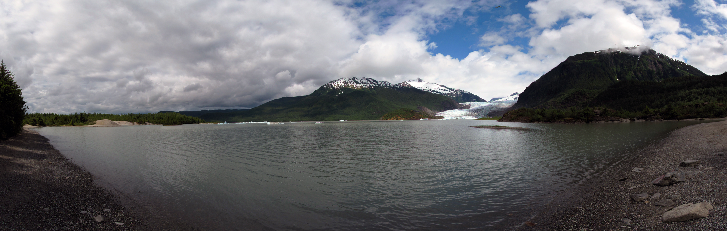 A stitch of 23 photos detailing the Mendenhall Glacier and Mendenhall Lake of Mendenhall Valley. This image was created with Hugin. NOTE: This image is a panorama consisting of multiple frames that were merged or stitched in software. As a result, this image necessarily underwent some form of digital manipulation. These manipulations may include blending, blurring, cloning, and color and perspective adjustments. As a result of these adjustments, the image content may be slightly different than reality at the points where multiple images were combined. This manipulation is often required due to lens, perspective, and parallax distortions.